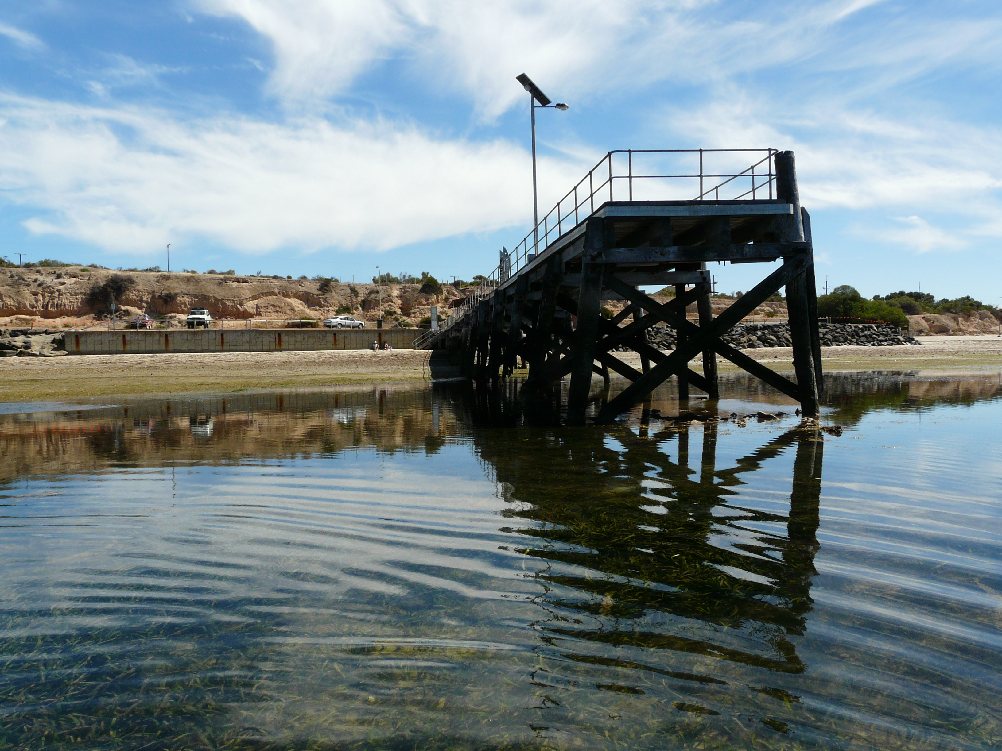 Port Julia Jetty, Yorke Peninsula, South Australia. Completed May 1913.